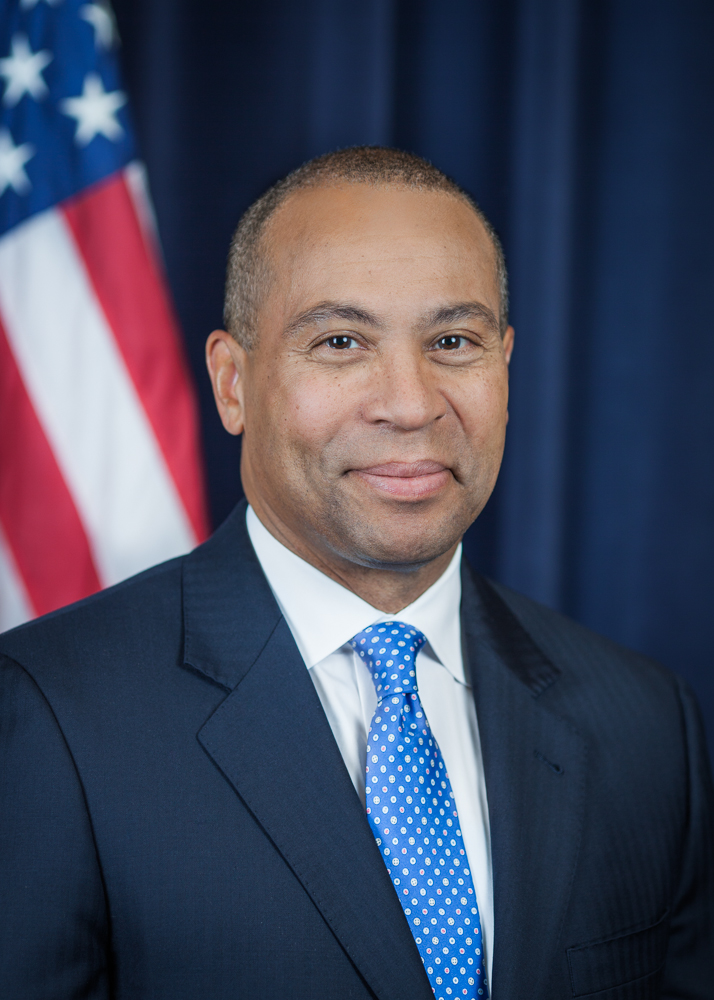 Deval Patrick, 71st Governor of Massachusetts from 2007 to 2015.